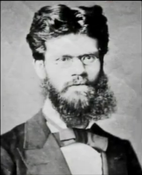 Carl Ernst Julius Henrici (* 10 December 1854 in Berlin; † 10 July 1915 in Döbeln) was a German grammar school teacher, writer, colonial adventurer and anti-Semitic politician.